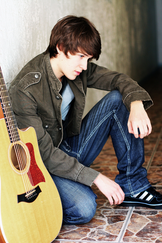 actor/singer known mostly as Ned Bigby on Ned's Declassified.... Also on the show Greek.